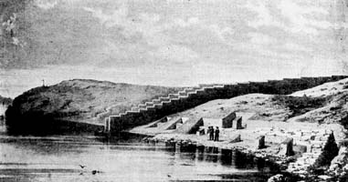 Excavation in Myrmekion, Crimea, by F. I. Gross, 1883-88